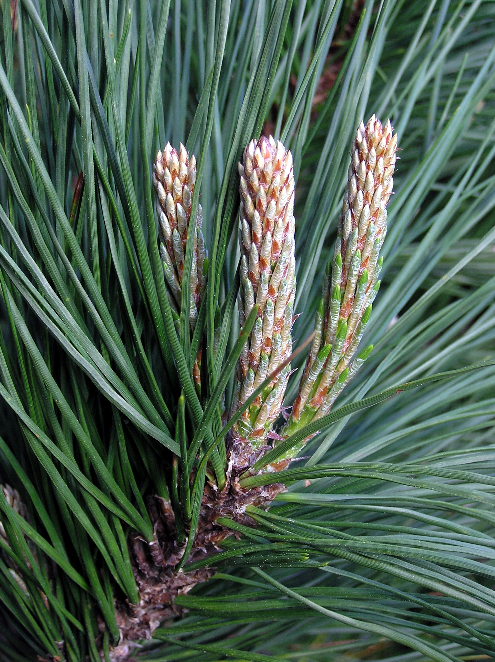 Pinus radiata needles and spike detail, Wellington, New Zealand